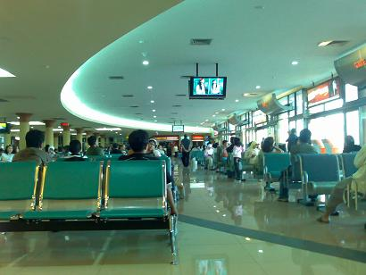 Domestic Departure lounge, Adisucipto airport, Yogyakarta, Indonesia